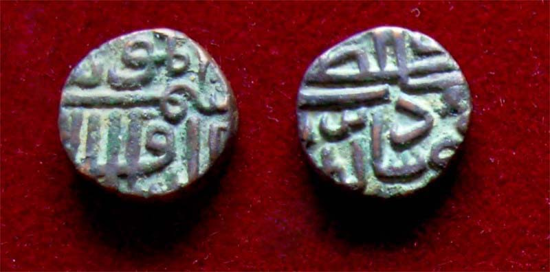 Copper coin of Muzaffir,weighing 3.5 Gms from my cabinet